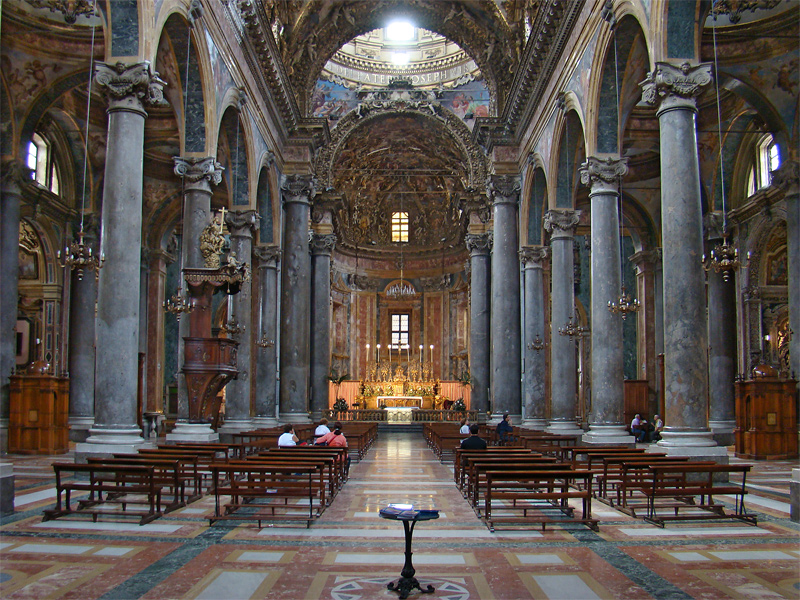 Church of San Giuseppe dei Teatini, Palermo, Sicily, Italy.